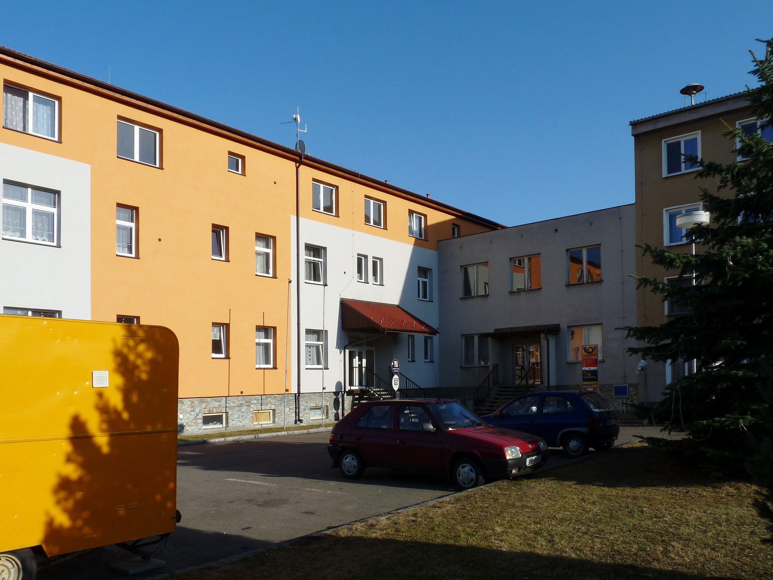 Municipal office building and the post office in the village of Žichovice, Klatovy District, Czech Republic